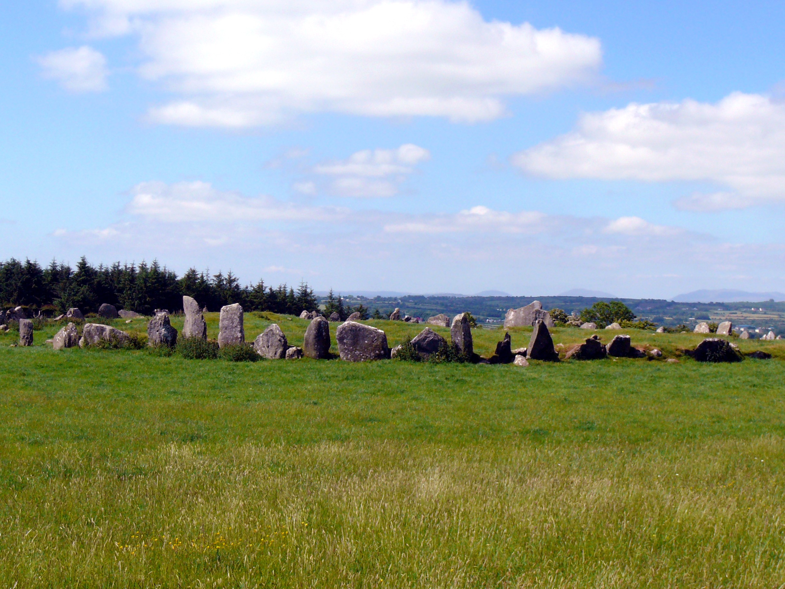 Beltany Stone Circle, south of Raphoe, Co. Donegal, Ireland